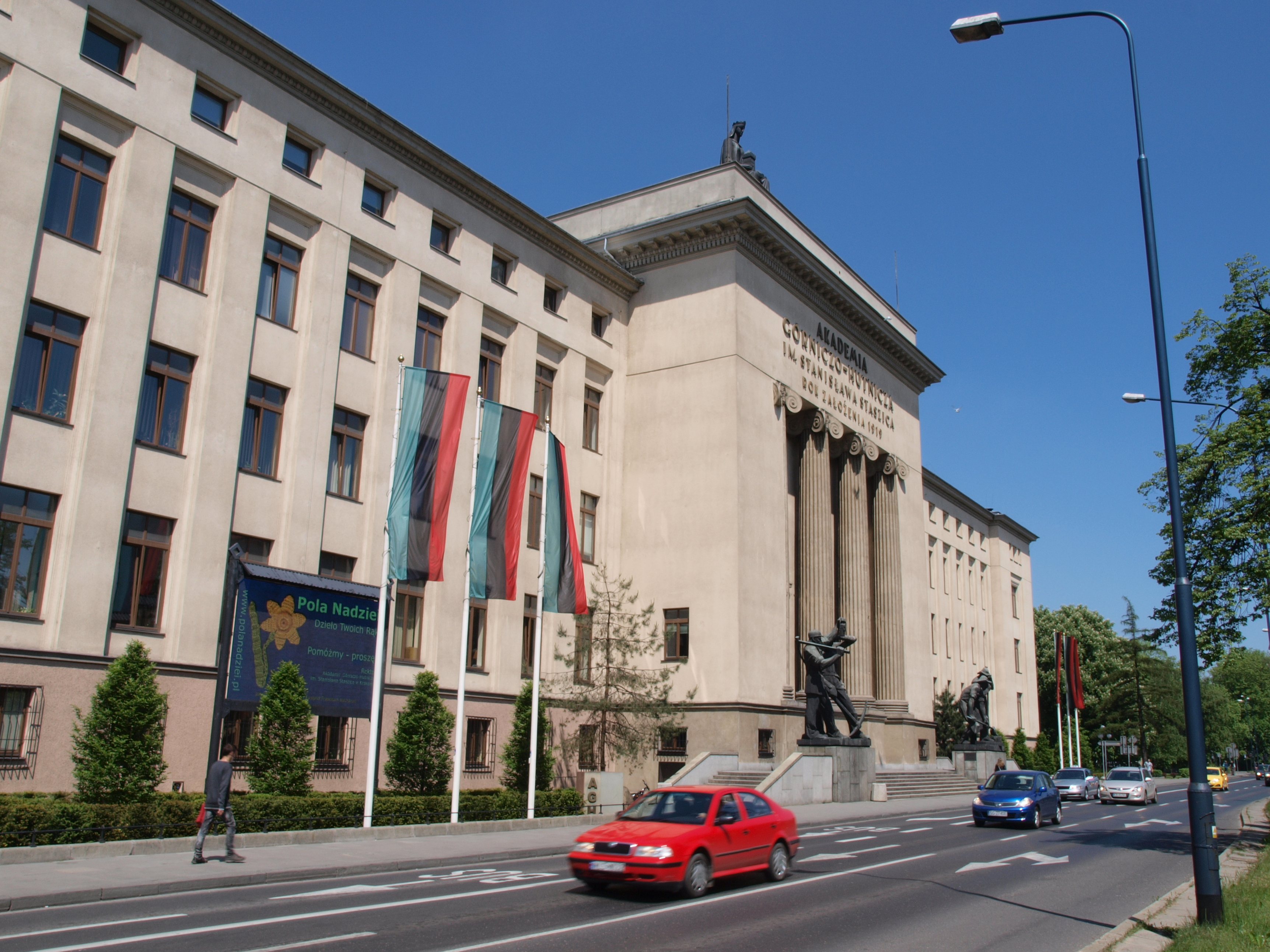 A0, the main building of AGH University of Science and Technology in Kraków, Poland, at Mickiewicza Avenue.